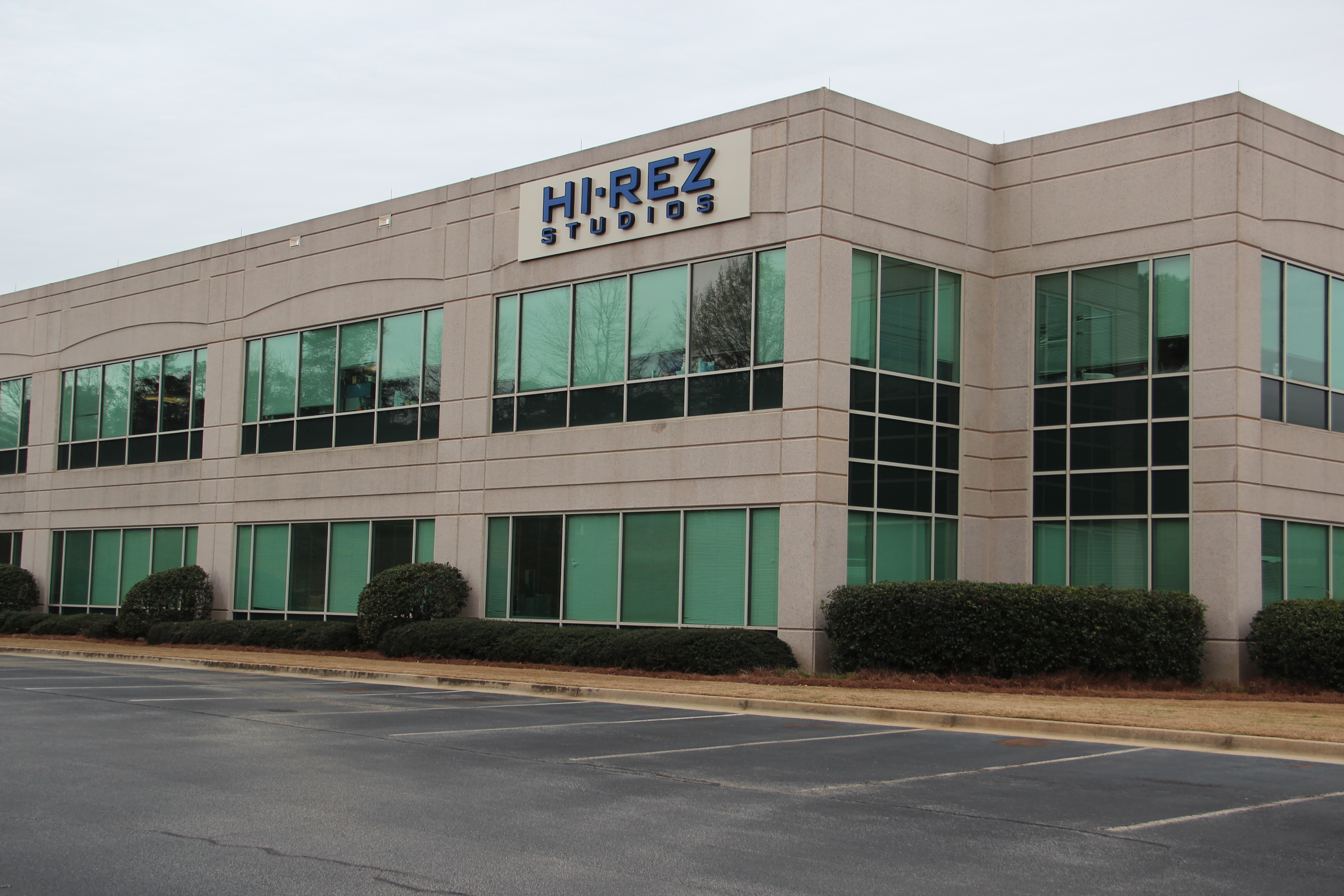 Hi-Rez Studios offices in Alpharetta, Georgia